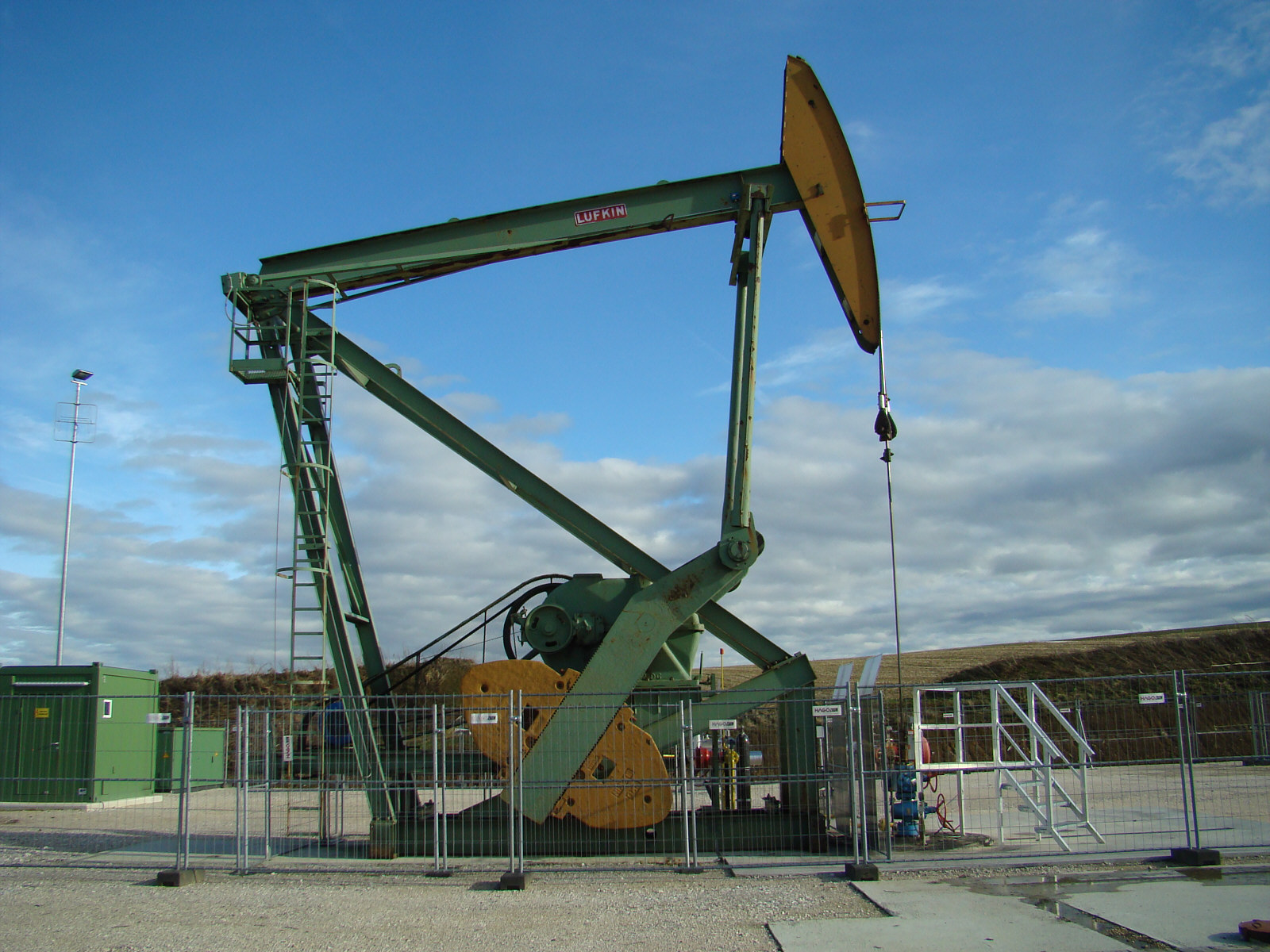 Lufkin Mark II Pumpjack at the oil field of Hiersdorf in Upper Austria